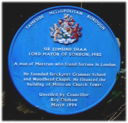 Blue Plaque commemorating Sir Edmund Shaa, onetime Lord Mayor of London